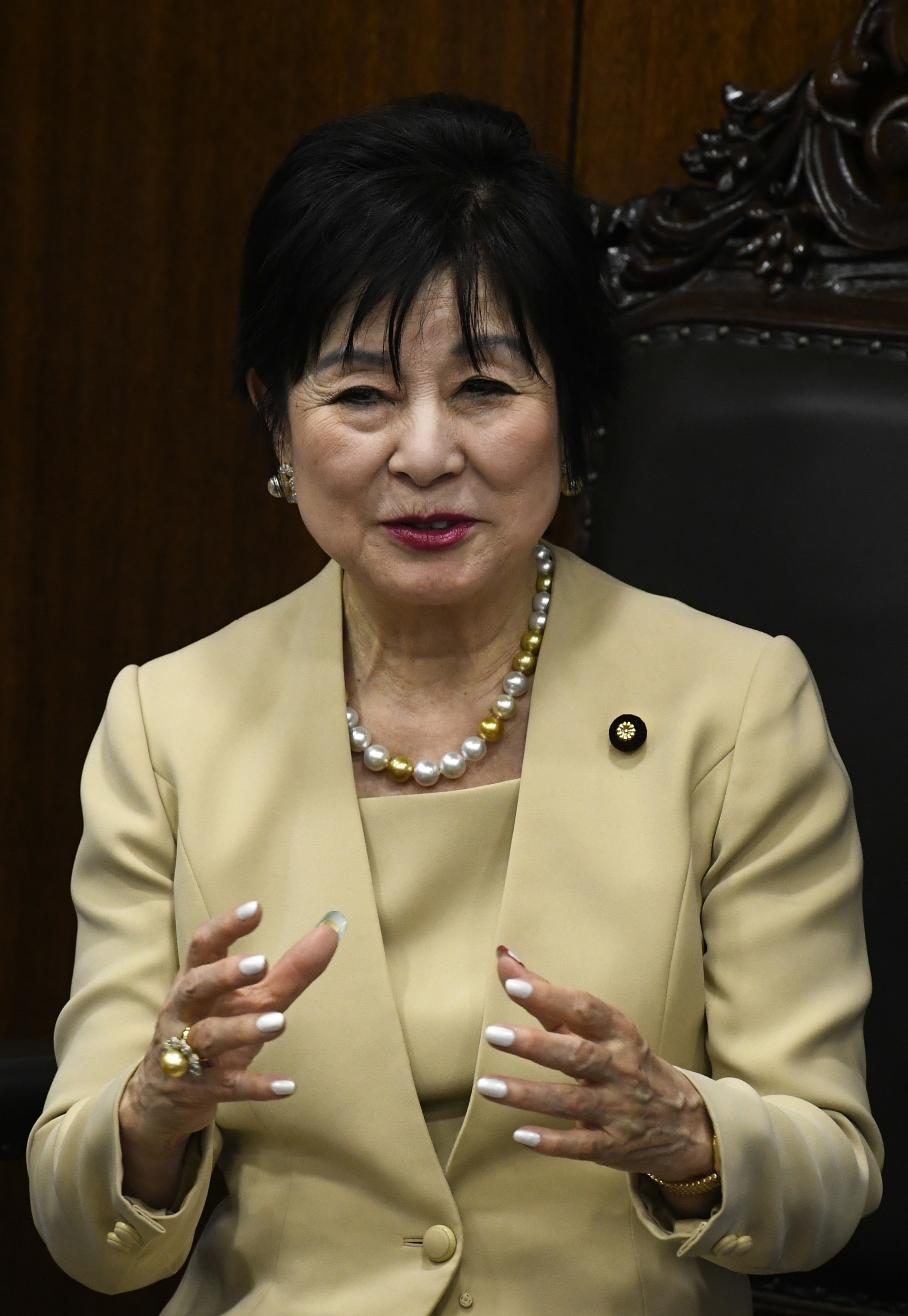 Japanese potician Akiko Santo in Brazilian Federal Senate